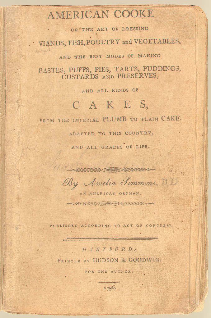 Cover of American Cookery by Amelia Simmons. First edition: Hartford, 1796. Printed by Hudson & Goodwin, for the author.